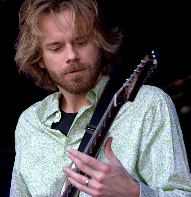 James Nash performs with the Waybacks at MerleFest in 2010. Wilkes County, N.C. Photo by Forrest L. Smith, III.